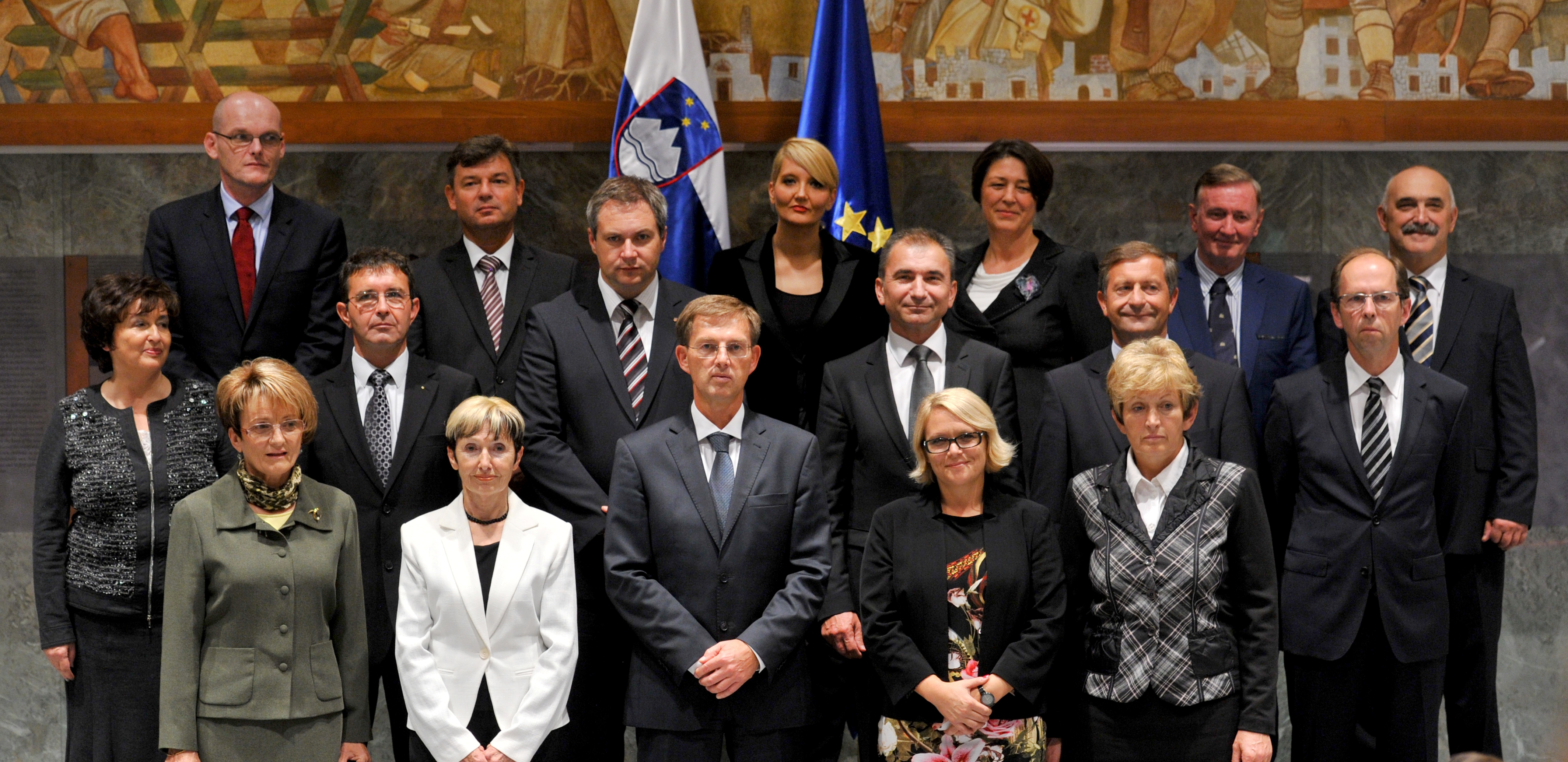 12th Slovenian Goverment, Miro Cerar as a prime ministerSlovenščina: - Fototermin novoizvoljenih ministrov in ministric s predsednikom vlade Mirom Cerarjem; DZ, preddverje velike dvorane, na podiju z zastavami, Subiceva 4, LJUBLJANA